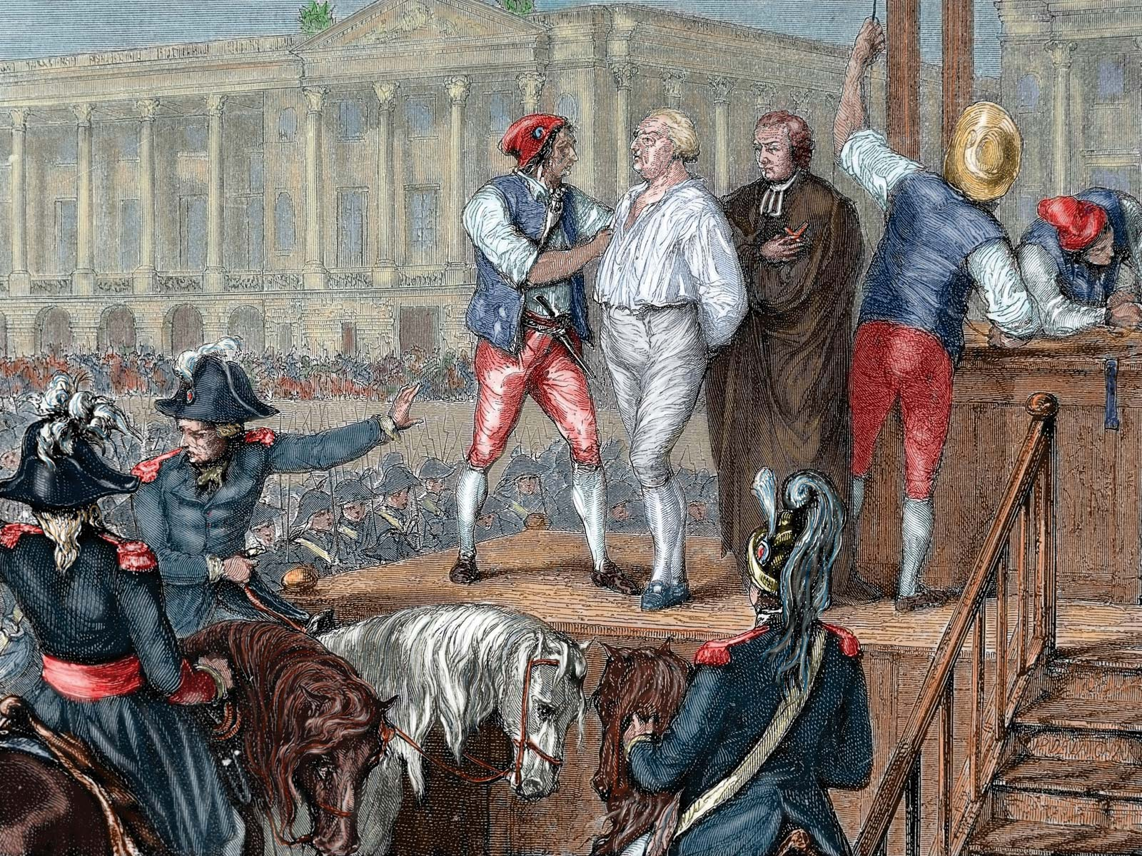 Louis XVI execution engraving